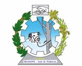 Brazão the County of Brasnorte, created by Joel de Vasconcelos, in competition held in the municipality and declared official by law on 28/08/1989.